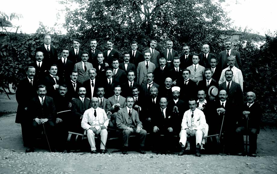 Delegates of the Congress - January, 1920